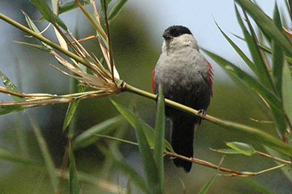 Uganda Black-headed Waxbill (Estrilda atricapilla)